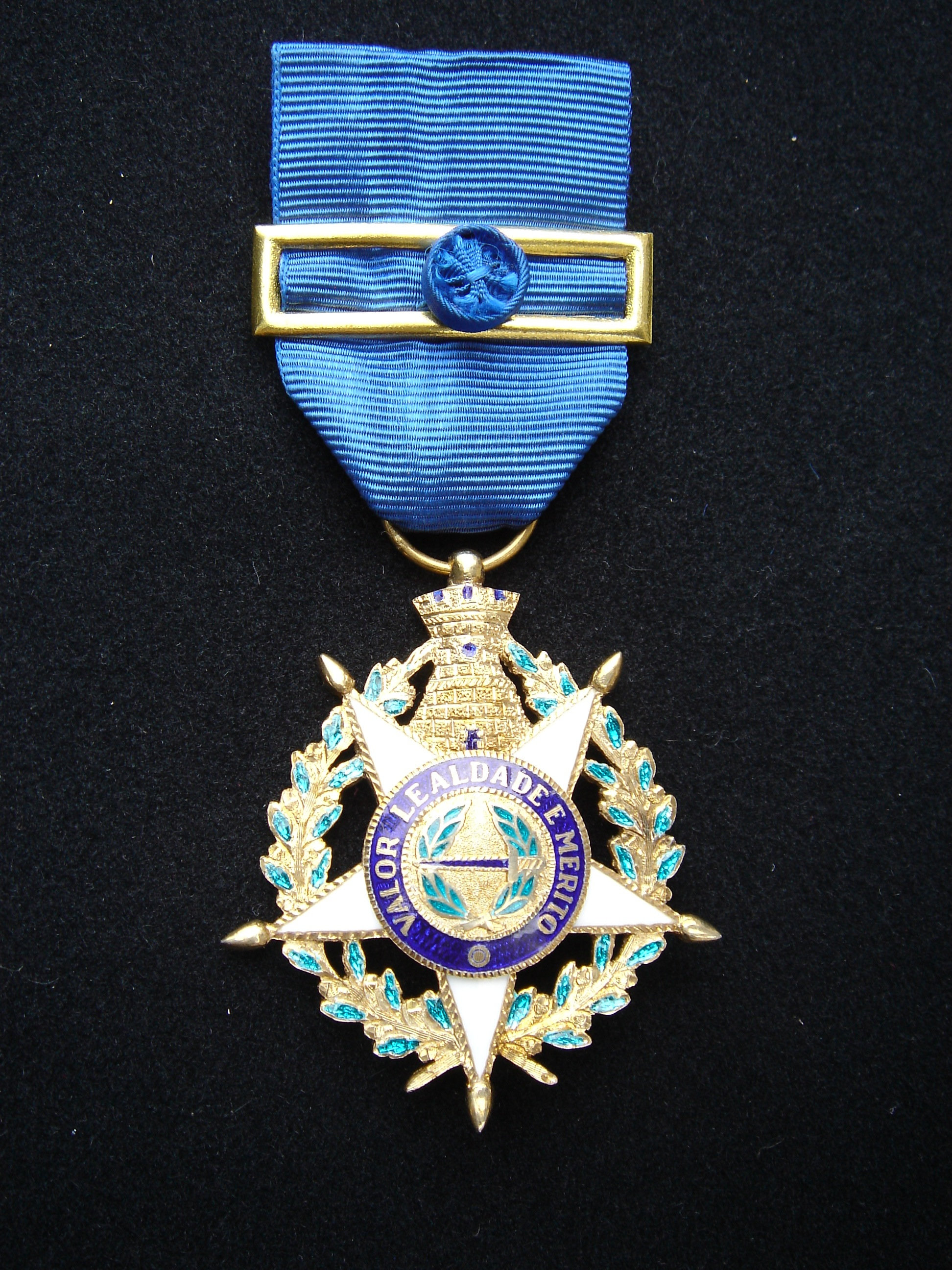 Knight of the Order of the Tower and Sword